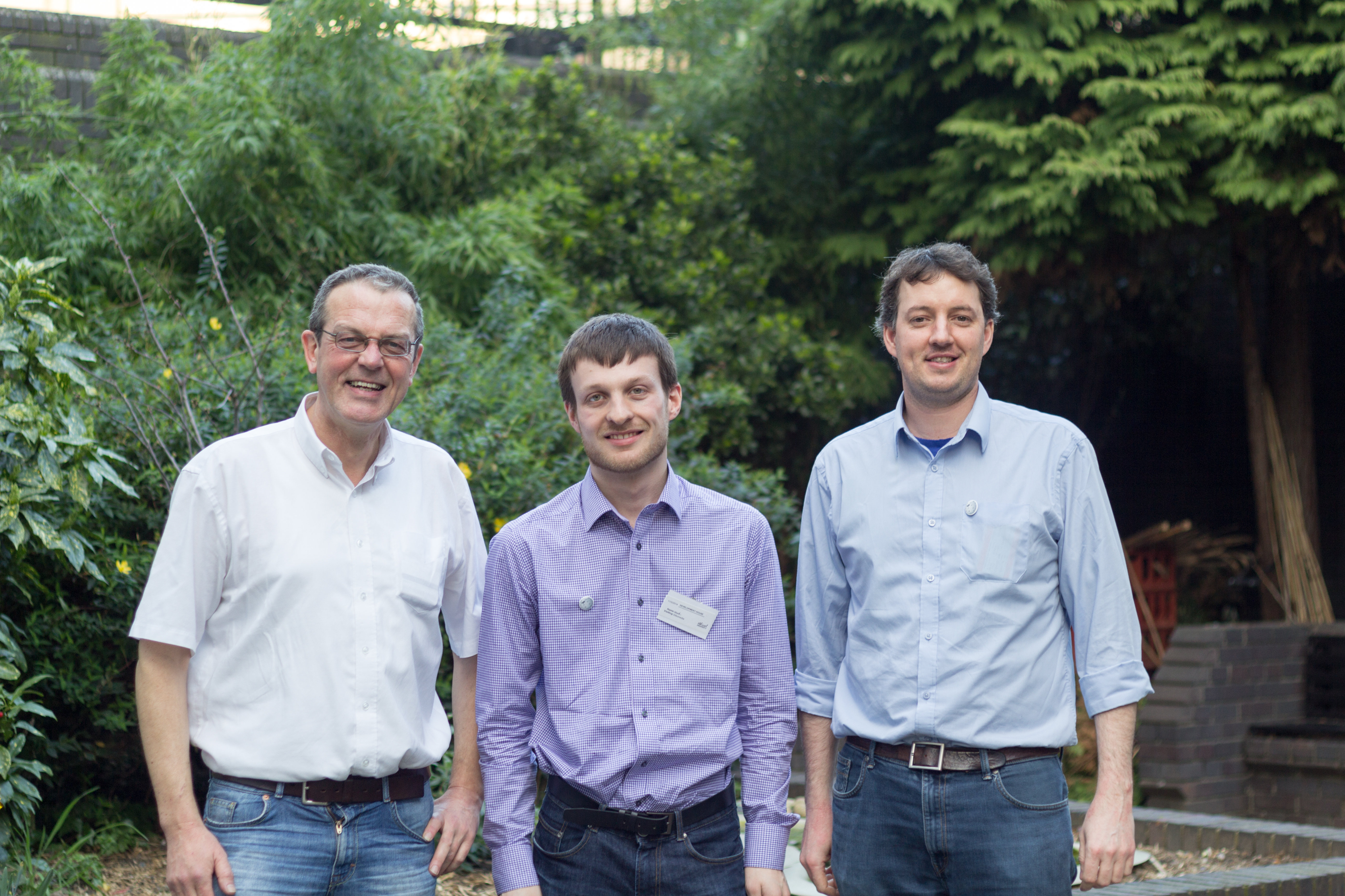 Robin Owain, Marc Haynes, Aled Powell at Development House.